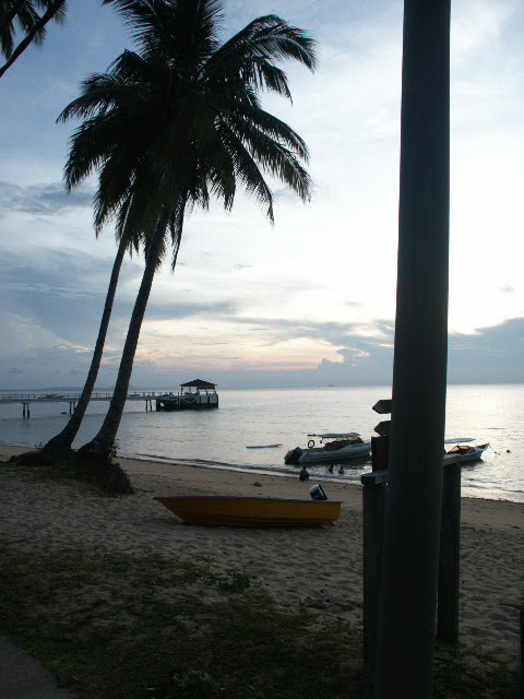 Tiomanbeach